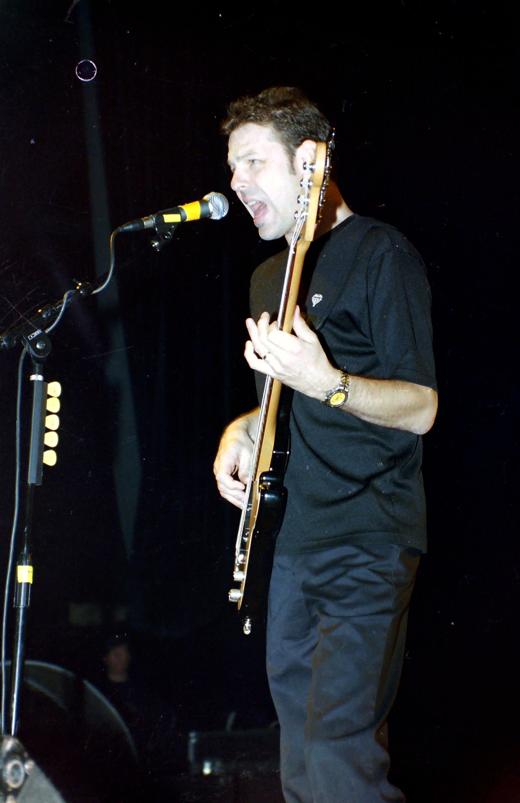 Stryper's bassist Tim Gaines, at the La Villareal Convention Center, McAllen, Tx.